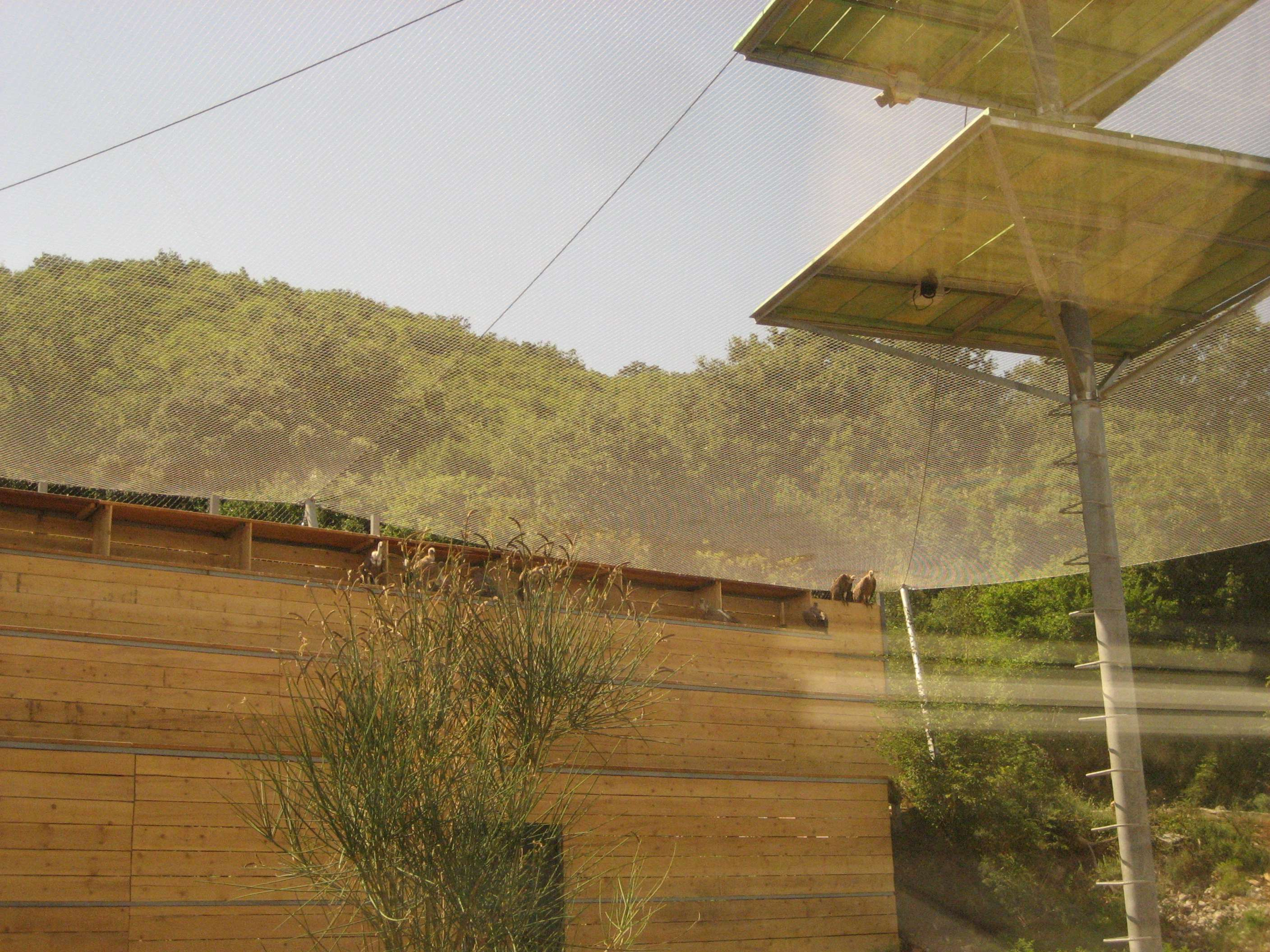 Caput Insulae Beli, Croatia